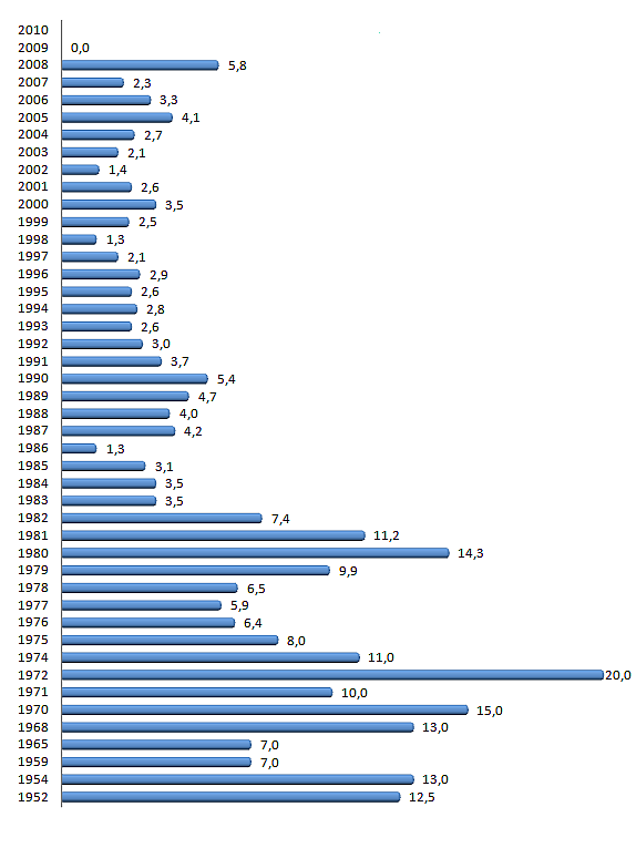 Social Security general benefit increases in the USA.